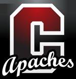 Centennial High School Compton Logo Modern